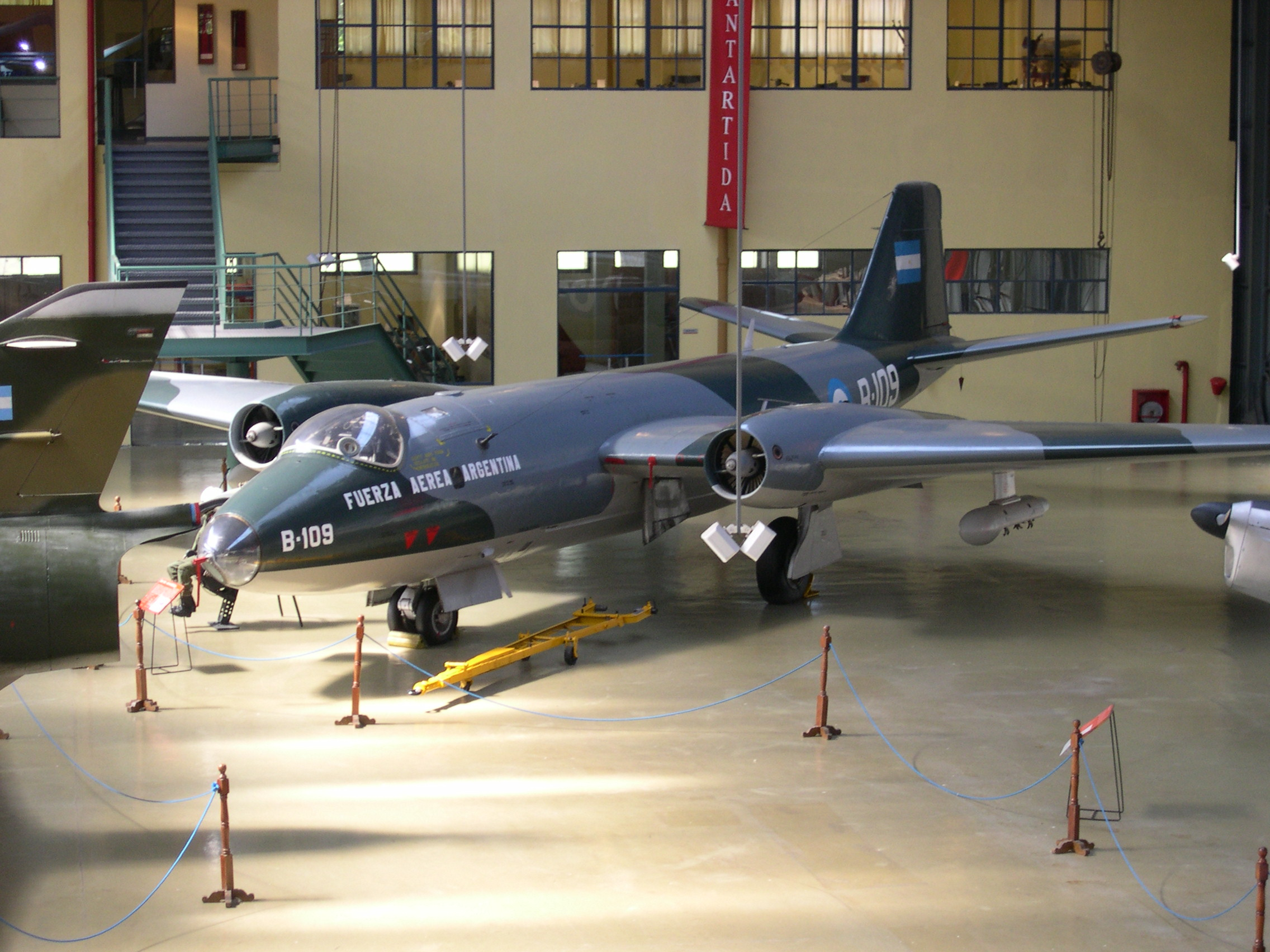 Argentine Air Force Canberra B.Mk62 B-109 in Museo Aeronautico Nacional at Moron, Buenos Aires Argentina. Built in 1953 as C/N 2373 B.2 Royal Air Force WJ609. Refurbished and sold to FAA in 1969 as G-27-163. Accepted 09 September 1971 as B-109 for use by II Brigada Aerea, Grupo 1 de Bombardeo at Parana (Entre Rios Province). Participated in Falklands (Malvinas) War in 1982. Retired 05 April 2000.